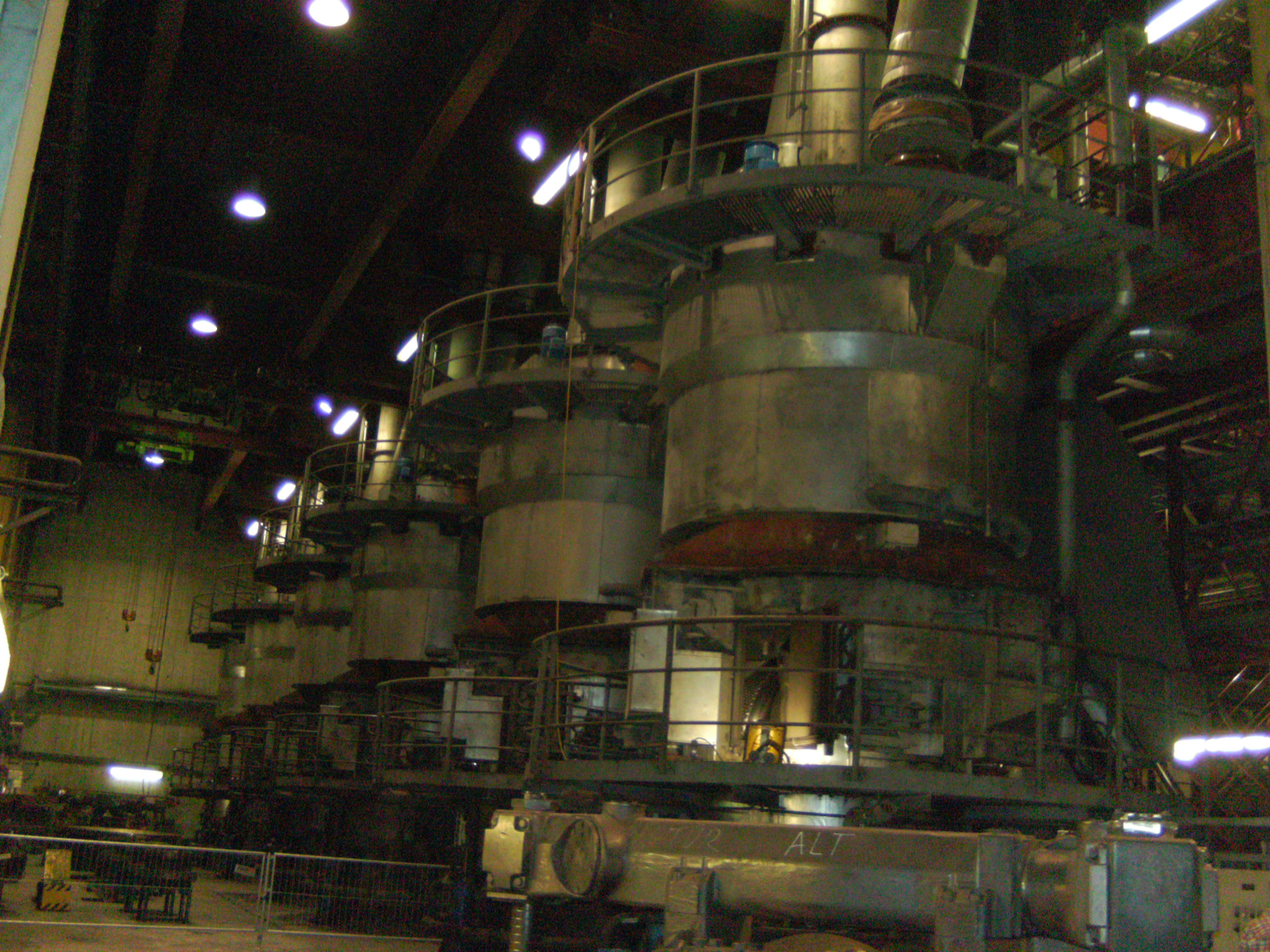 Coal Mills of Altbach Power Plant